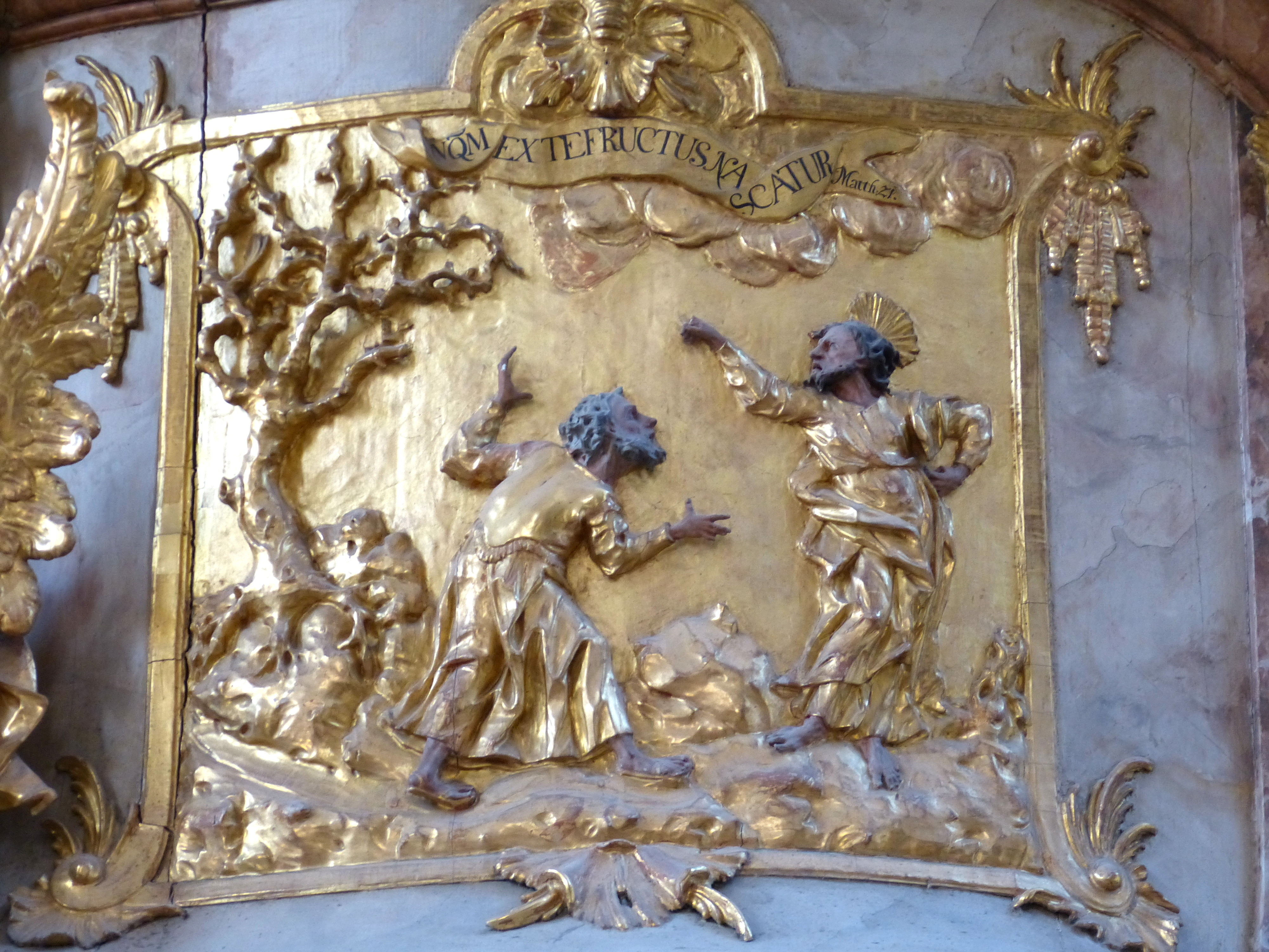 Aldersbach abbey ( Lower Bavaria ). Mary Assumption parish church: Rococo pulpit (1748) by Joseph Deutschmann - Parable of the barren fig tree.